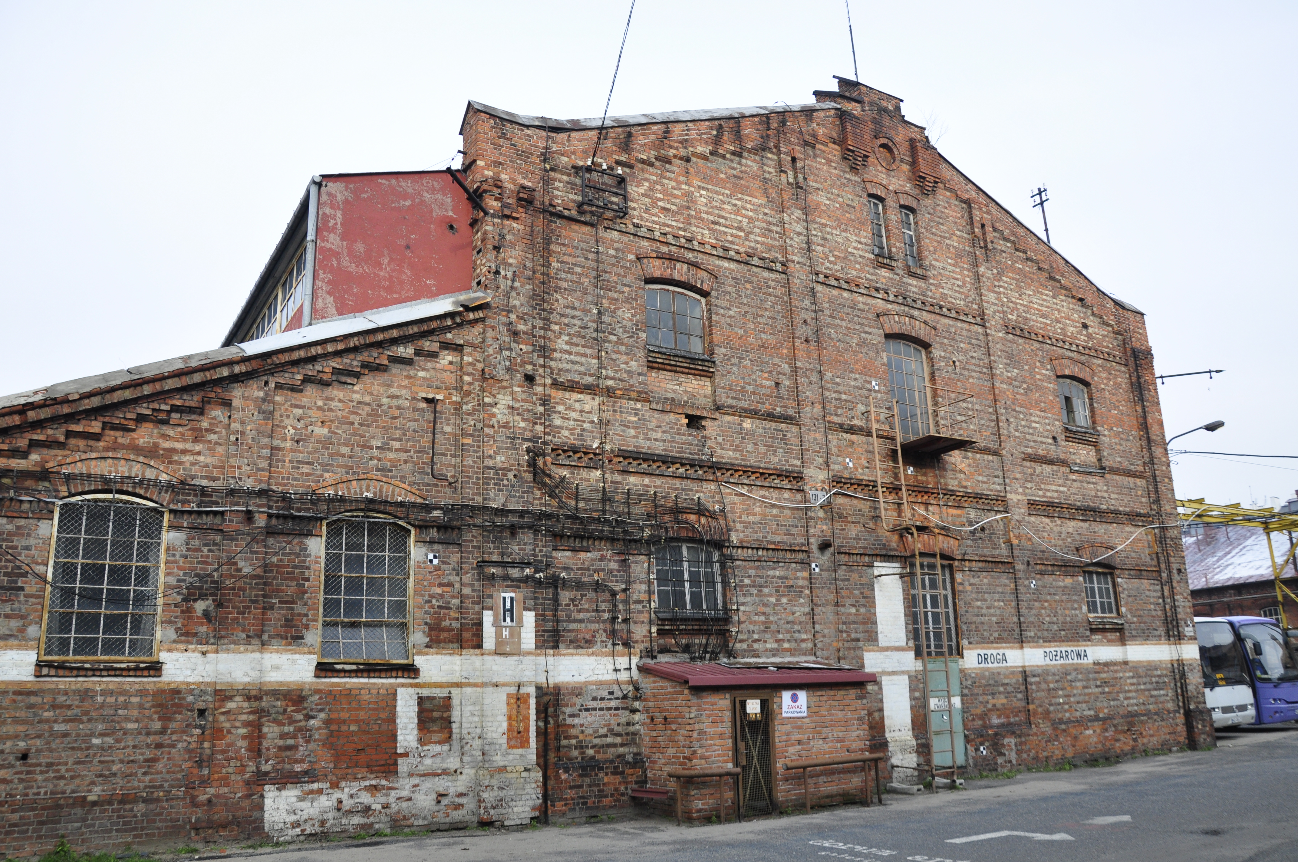 Koneser Vodka Factory